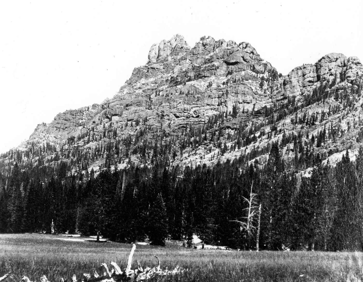 Yellowstone National Park, Wyoming. Eagle Peak. Circa 1890. Plate 35, U.S. Geological Survey Monograph 32, part 2